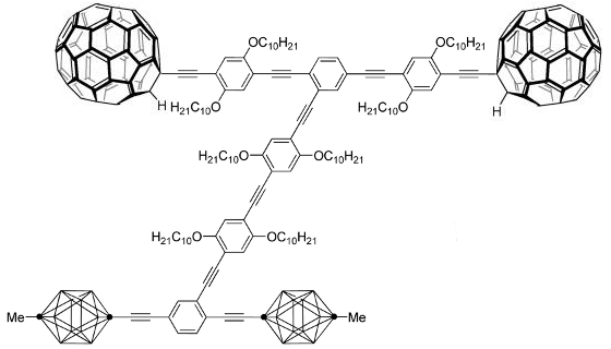 Chemical structure of the nanodragster. The small wheels are p-carborane with methyl groups, larger wheels are C60 fullerene.Vives, G. et al (2009). "Molecular Machinery: Synthesis of a Nanodragster". Org. Lett. 11: 5602. PMID 20000442.